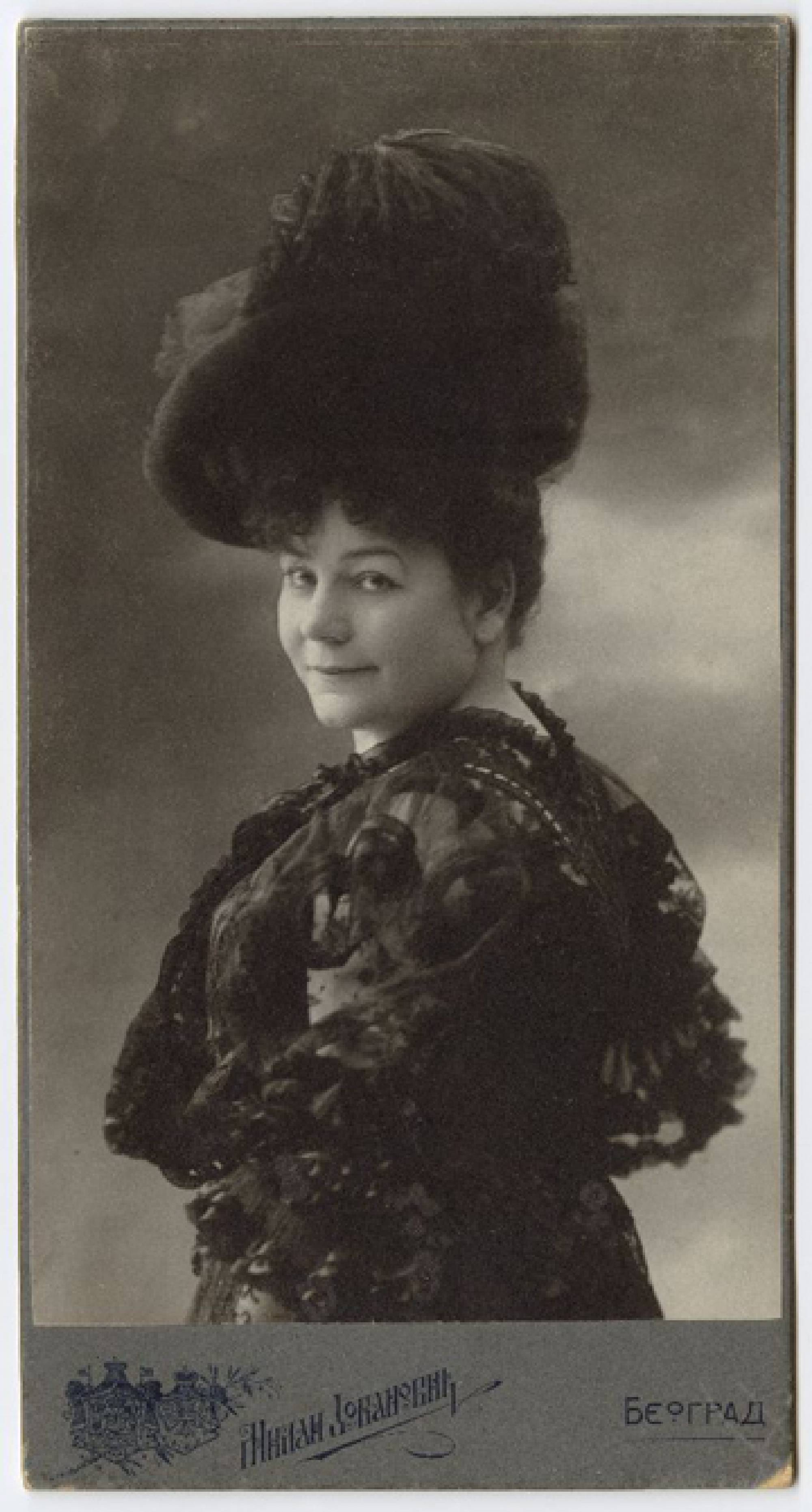 Zorka Todosić (1864-1936), Serbian actress. Photo: Milan S. Jovanović (1863-1944). Photographed between 1901 - 1910. From the archives of the Theatre Museum of Serbia.